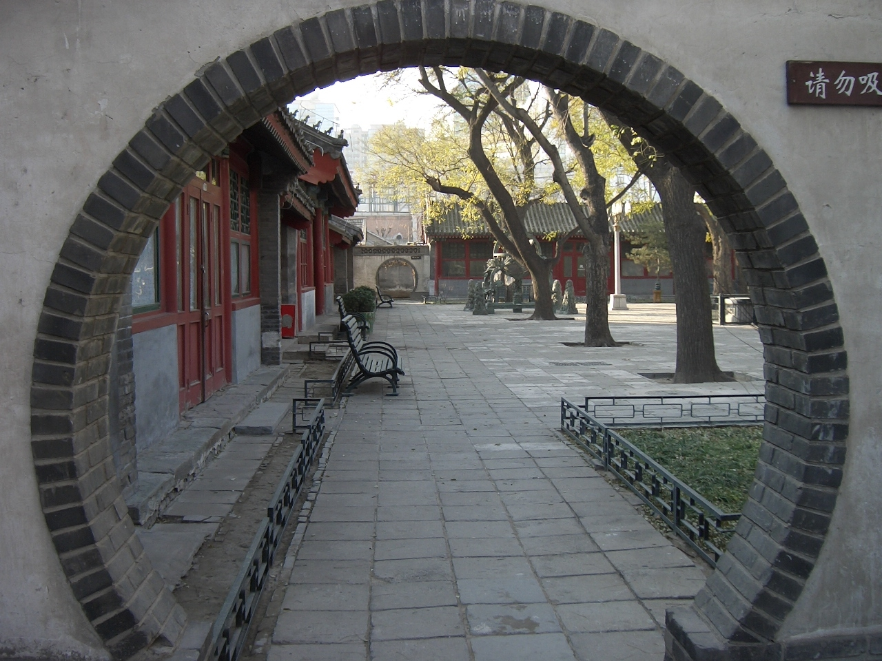 Courtyard at the Beijing Ancient Observatory